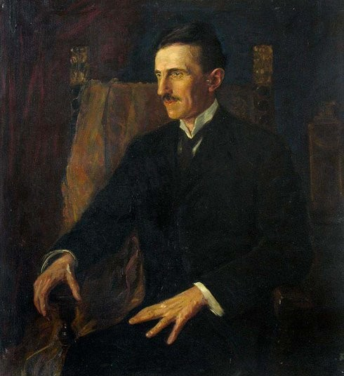 Blue Portrait of Nikola Tesla, the only painting for which Tesla posed.See Tesla's Portrait Shown.